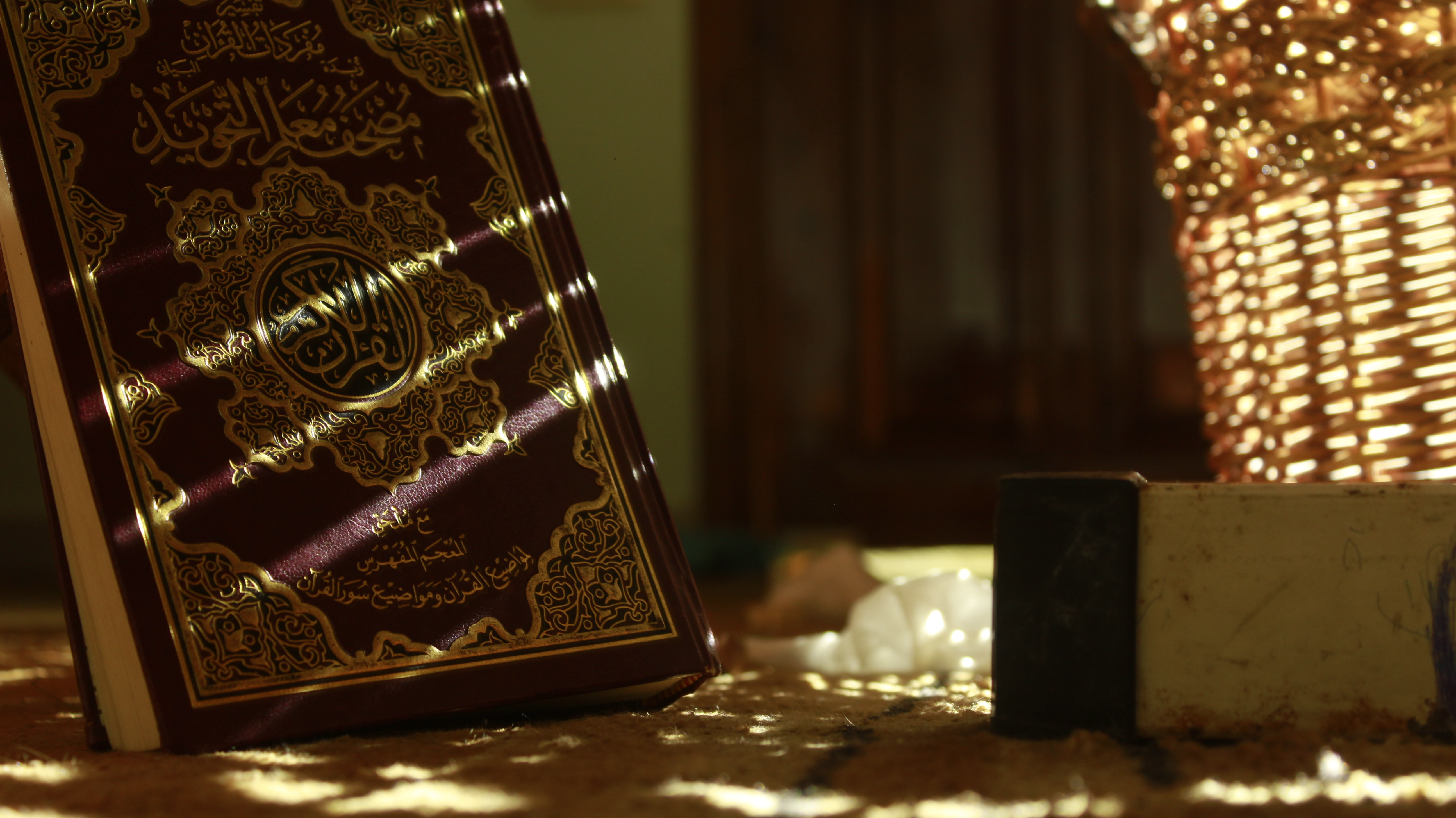 The holy Quran is the constitution of the muslim's life.